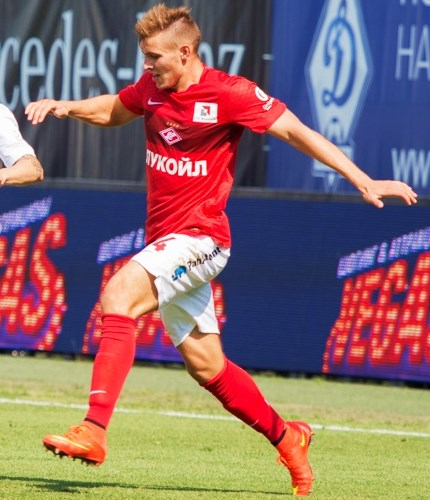 Sergey Parshivluk 10.08.2014